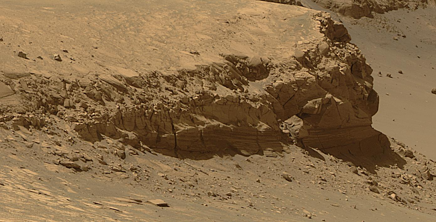 This view of Victoria crater is looking north from "Duck Bay" towards the dramatic promontory called "Cape Verde." The dramatic cliff of layered rocks is about 50 meters (about 165 feet) away from the rover and is about 6 meters (about 20 feet) tall. The taller promontory beyond that is about 100 meters (about 325 feet) away, and the vista beyond that extends away for more than 400 meters (about 1300 feet) into the distance. This is a false color rendering (enhanced to bring out details from within the shadowed regions of the scene) of images taken by the panoramic camera (Pancam) on NASA's Mars Exploration Rover Opportunity during the rover's 952nd sol, or Martian day, (Sept. 28, 2006) using the camera's 750-nanometer, 530-nanometer and 430-nanometer filters.